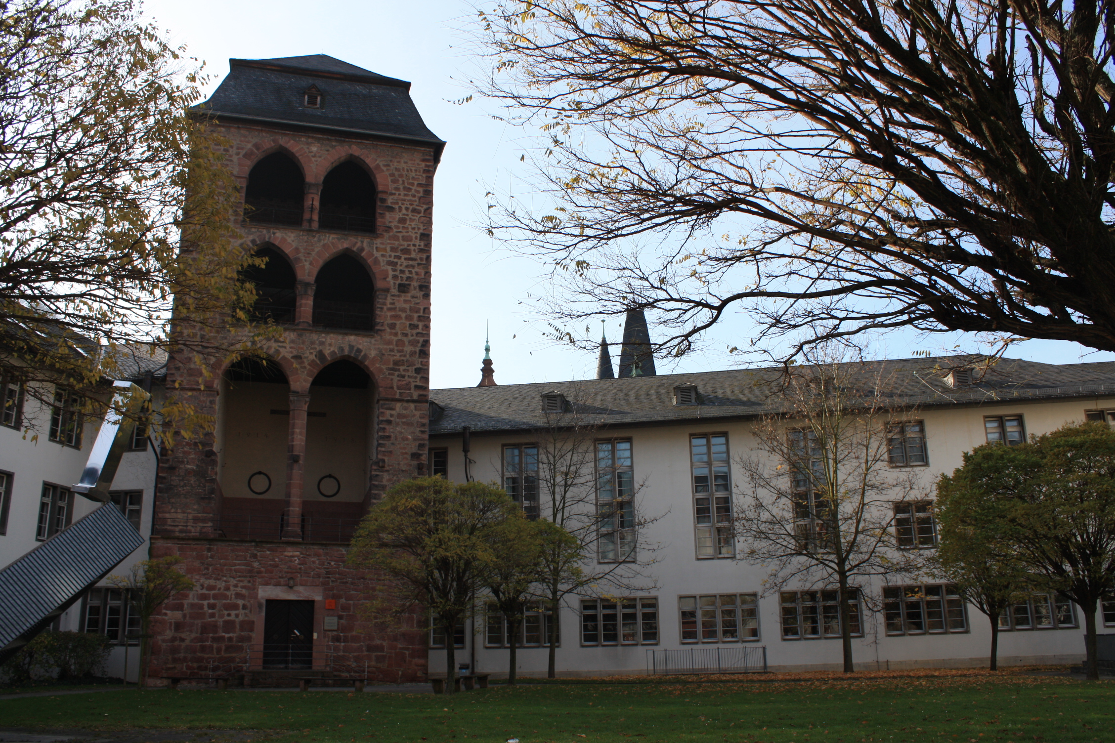 The "new university" building of Heidelberg. To the left is the 'Hexenturm' (witchtower) a remain of the city medival wall. The tower was used a women's prison, and now serves as a memorial to students that were killed in WWI.